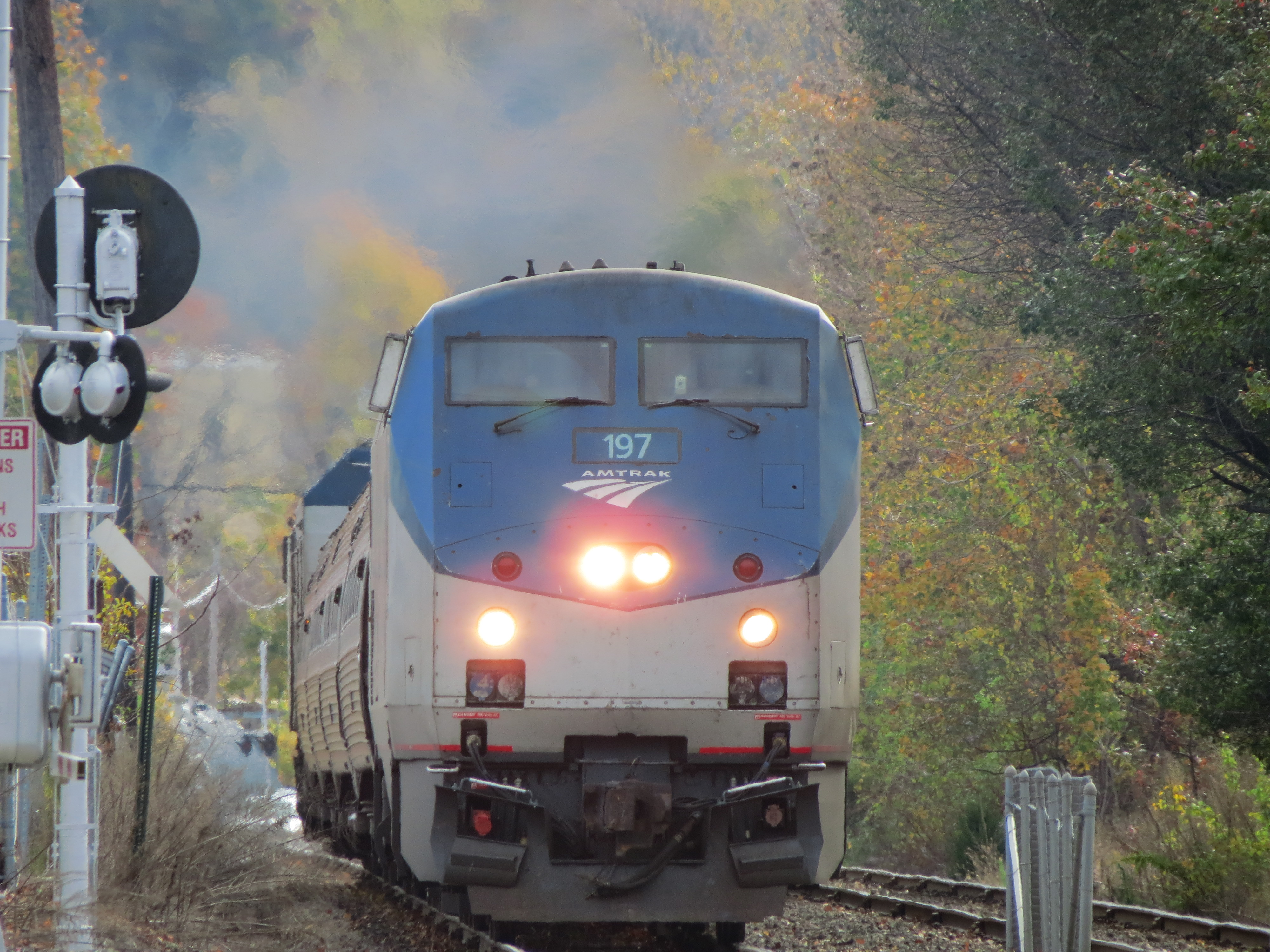 A Downeaster being rerouted through Wakefield, Mass during track work on the Lowell Line